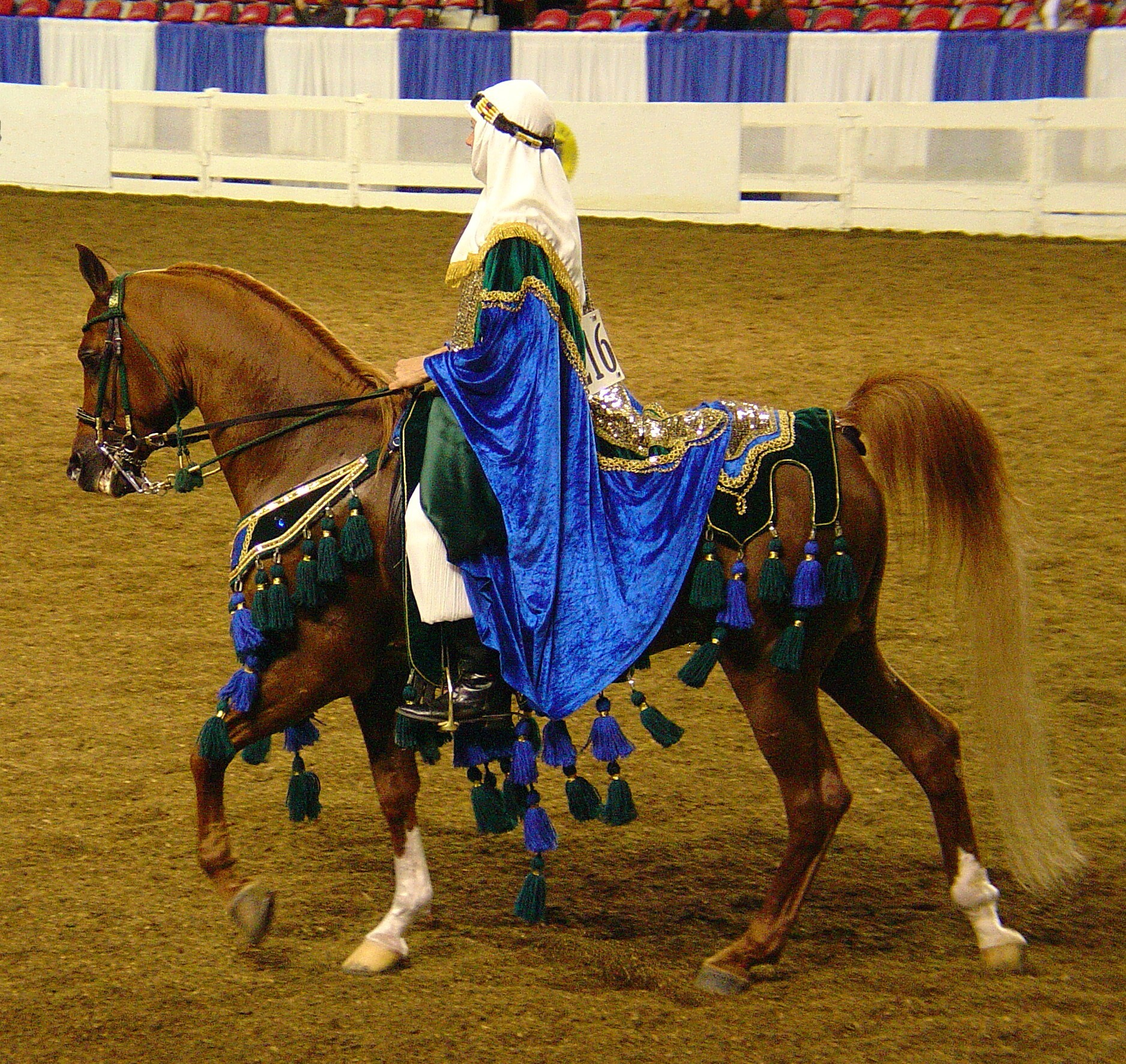 Photo by Heather abounader